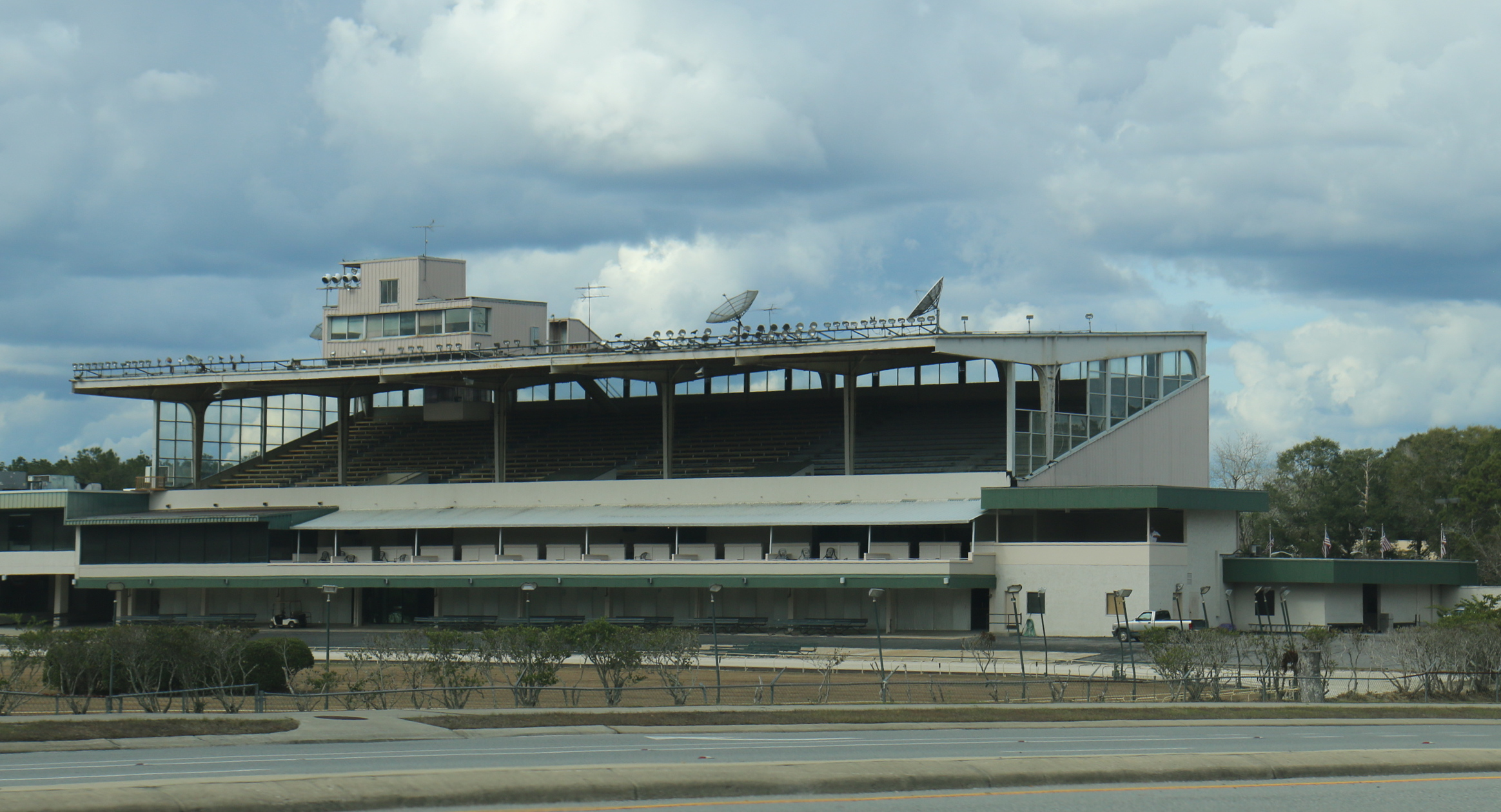 Ebro Greyhound Park, a dog racing facility in Ebro, Florida.